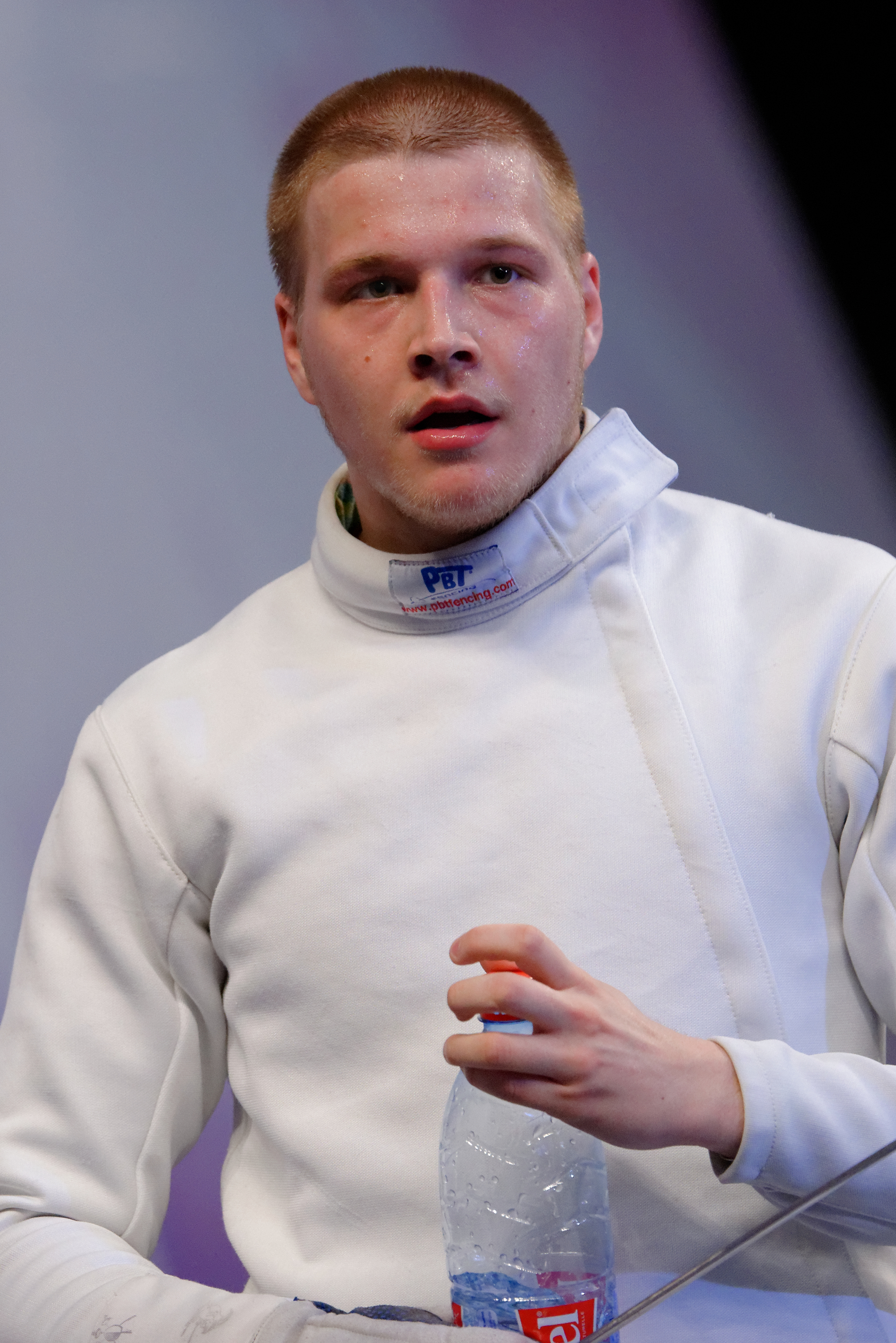 Finland's Kasper Roslander during his T64 match against Marco Fichera of Italy at the 2014 Challenge RFF-Trophée Monal, a men's épée World Cup event, on 2 May 2014.